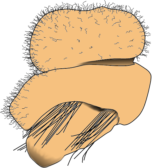 A drawing of the 3-lobed larval phase of Argyrotheca cordata, 180μm, lateral view, top apical lobe with long ciliae, mid-section mantel lobe, with ventral ciliae (left) and 4 bundles of setae (2 visible), brachial lobe, without ciliae. Based on: Andreas Altenburger and Andreas Wanninger (2009). Comparative larval myogenesis and adult myoanatomy of the rhynchonelliform (articulate) brachiopods Argyrotheca cordata, A. cistellula, and Terebratalia transversa. Frontiers in Zoology , 6:3 figure 1f.